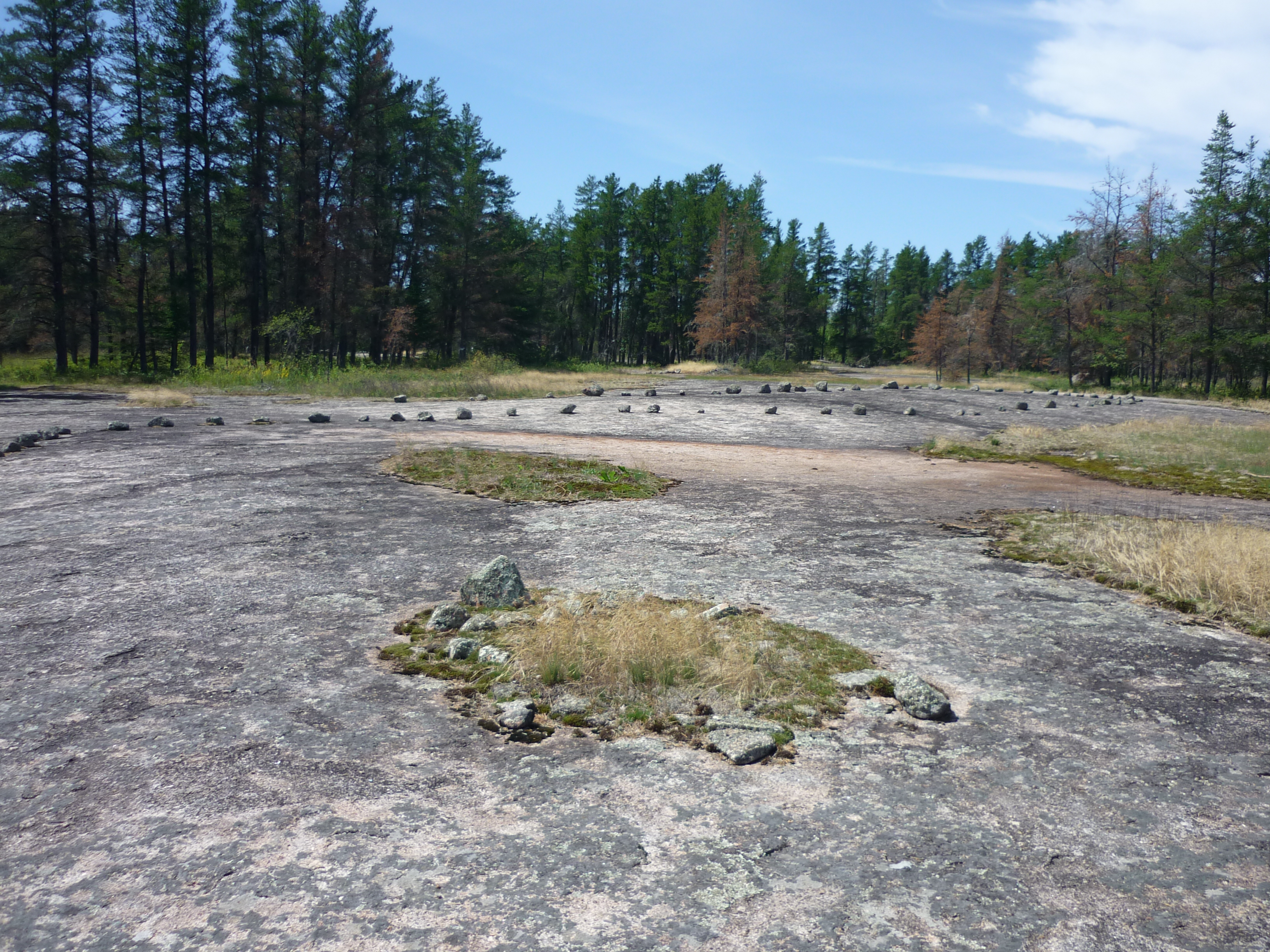 The Petroforms at Bannock Point in Whiteshell Provincial Park in Summer 2012.